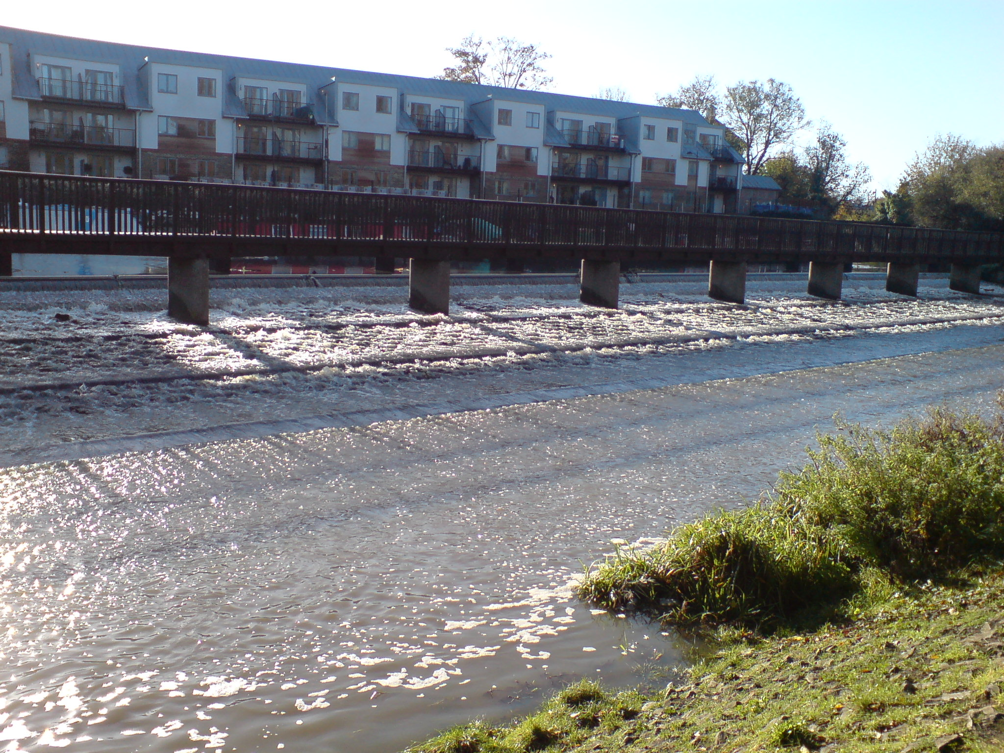 Author: Jamsta